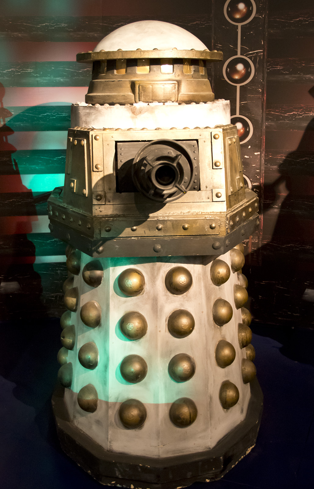 Doctor Who Experience